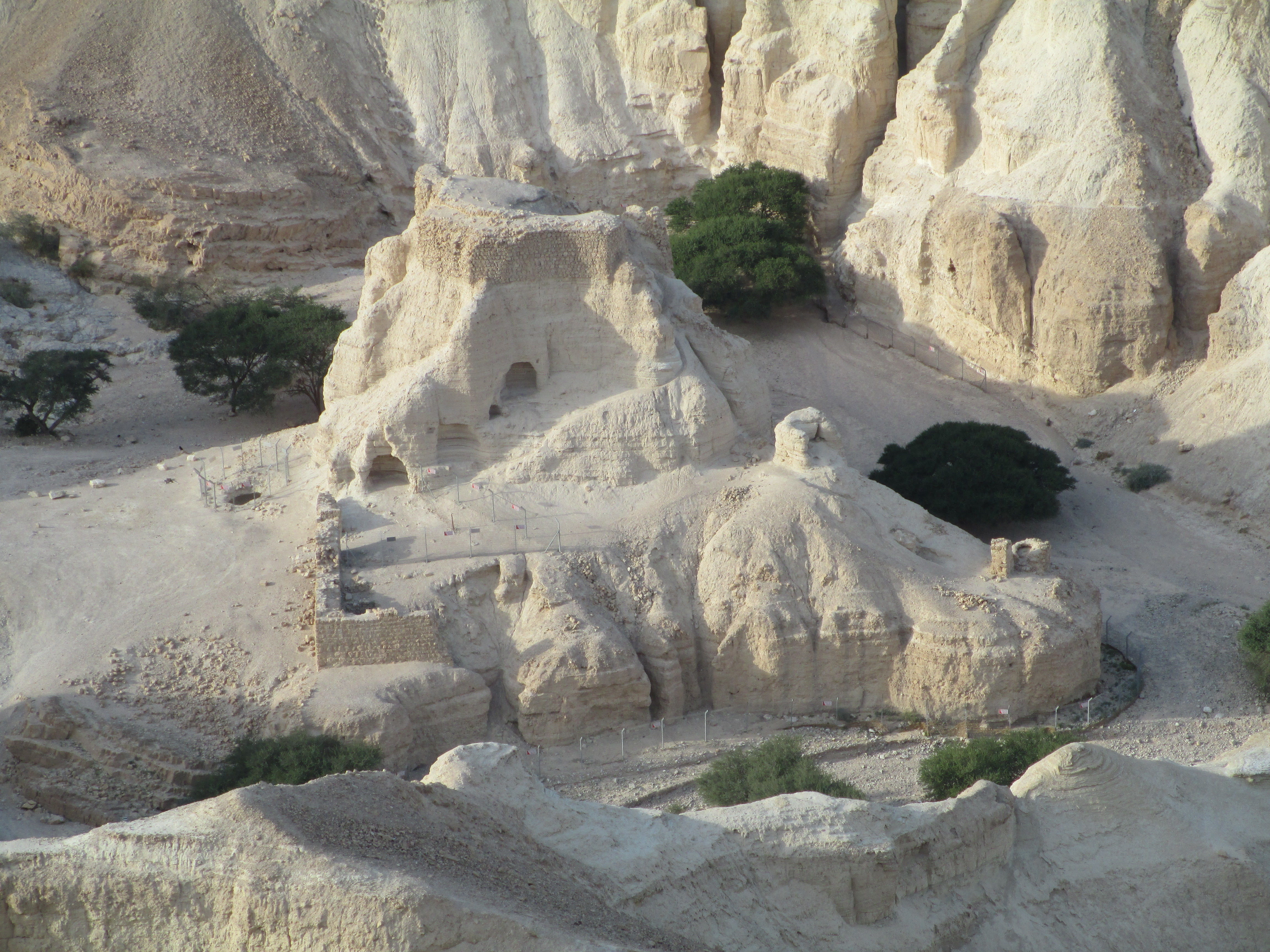 Zohar fort